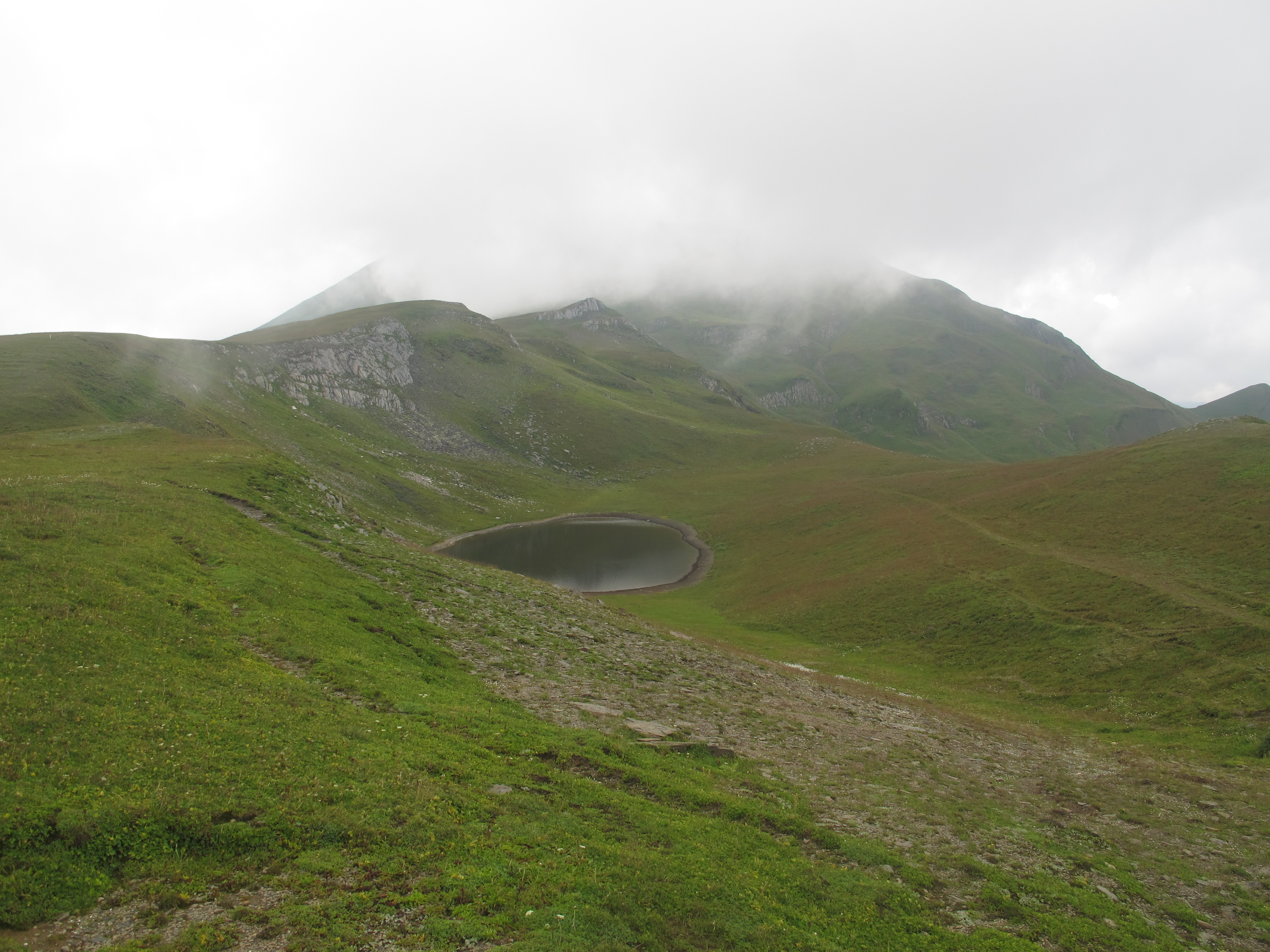 lower part of Svaneti Ridge with small lake